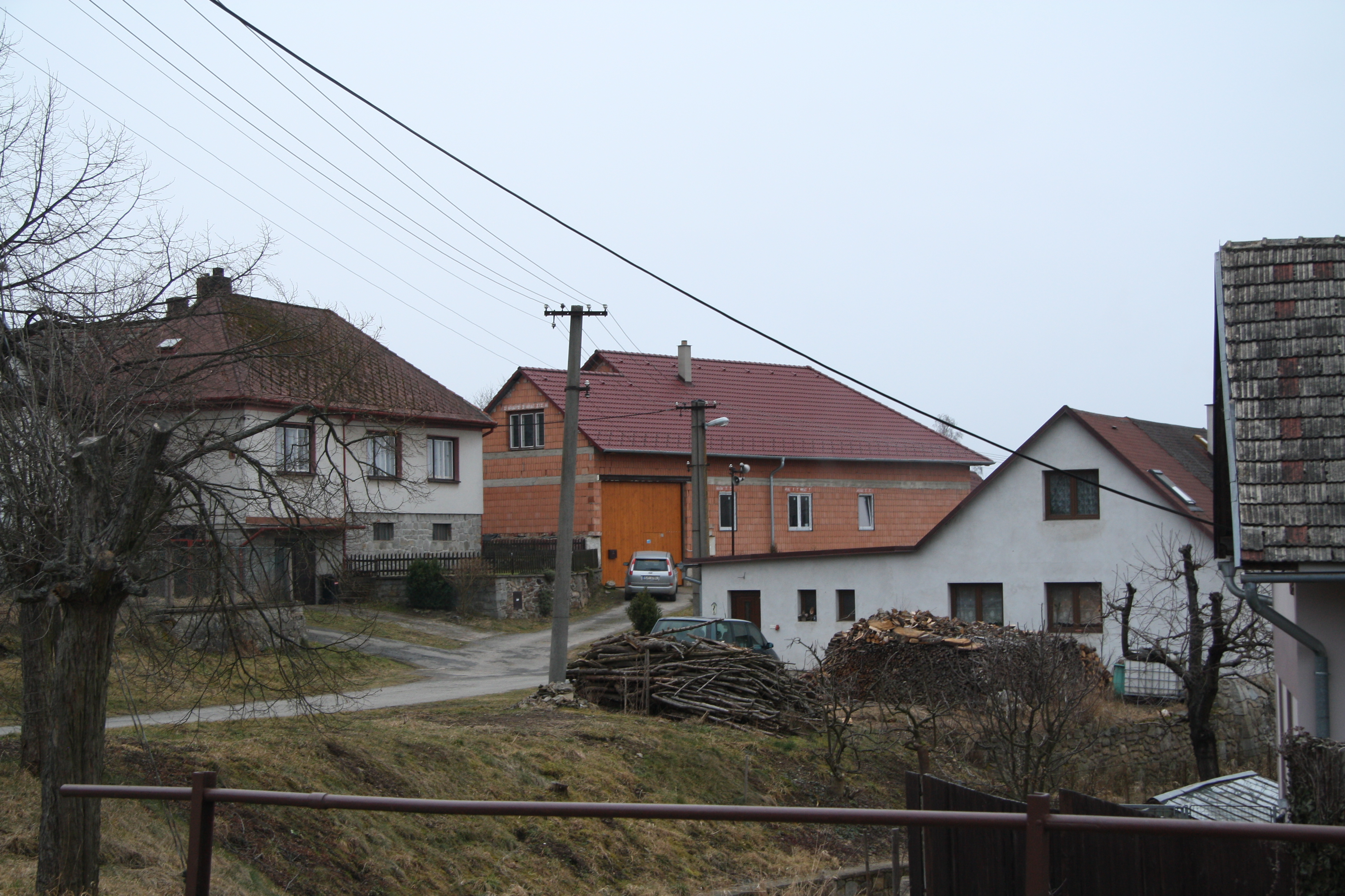 Houses in Hrutov, Jihlava District.